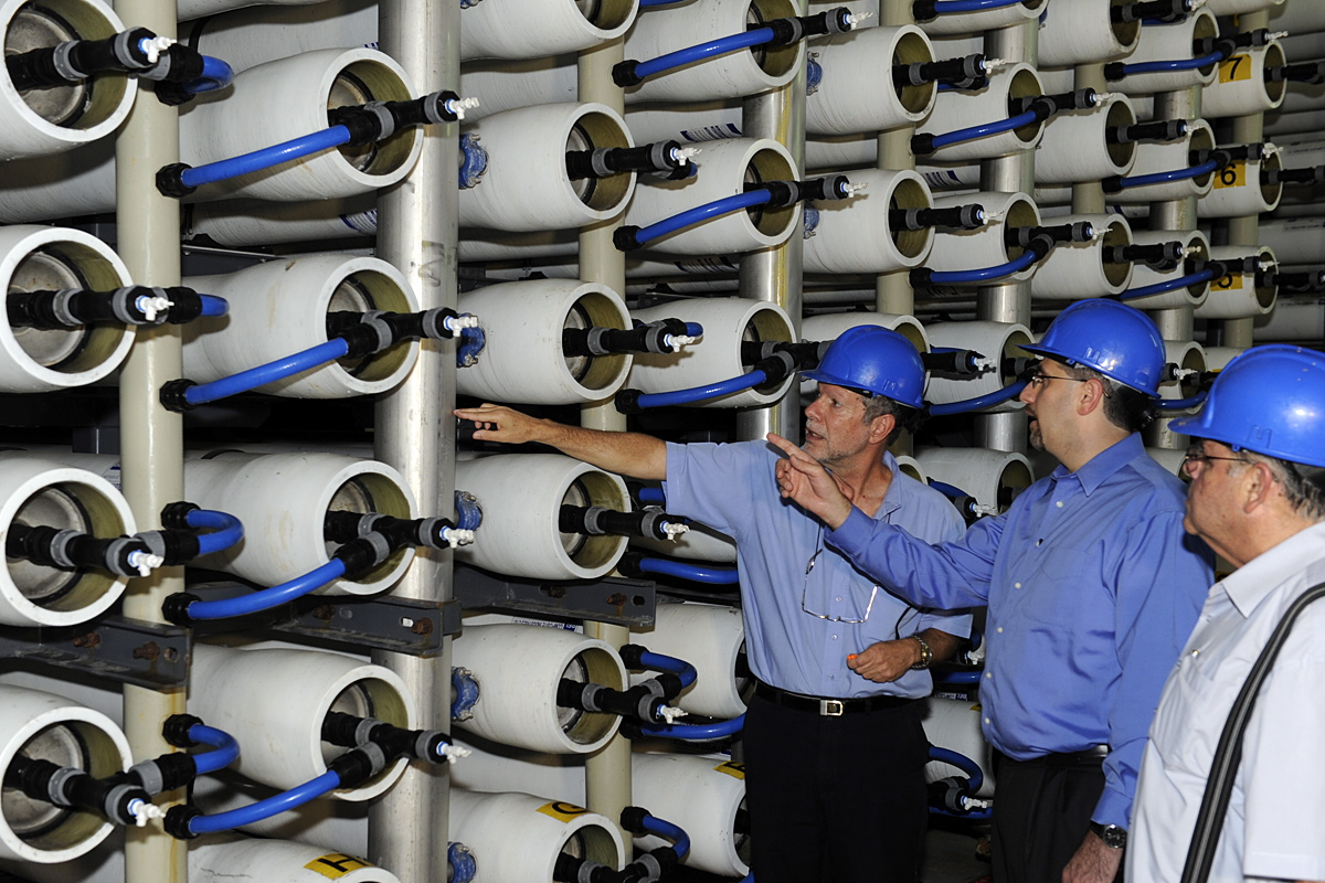 On July 26, Ambassador Daniel Shapiro visited and toured the Hadera Desalination Plant, the newest and most modern desalination facility in Israel, and the leading desalination plant in the world. During the visit, the Ambassador learned more about Israel’s strategic decision in 1999 to develop a large scale desalination program which today contributes nearly 50 percent of the potable water used in Israeli households. The head of Israel’s Desalination Program, Abraham Tenne, and the Exceutive VP of Special Projects Hadera plant, Fredi Lokiec, provided the Ambassador with a strategic overview of Israel’s future plans for desalination and led a tour of the plant’s key facilities. At the end of the tour, the Ambassador had the opportunity to sample a glass of high quality drinking water which only 90 minutes earlier had been salty sea water. Ambassador Shapiro commended Israel for its impressive technology and urged Israeli water officials to continue their constructive engagement in the region on desalination training under the auspices of the multilateral MEDRC (Middle East Desalination Research Center) program in which the U.S. plays a leading role.